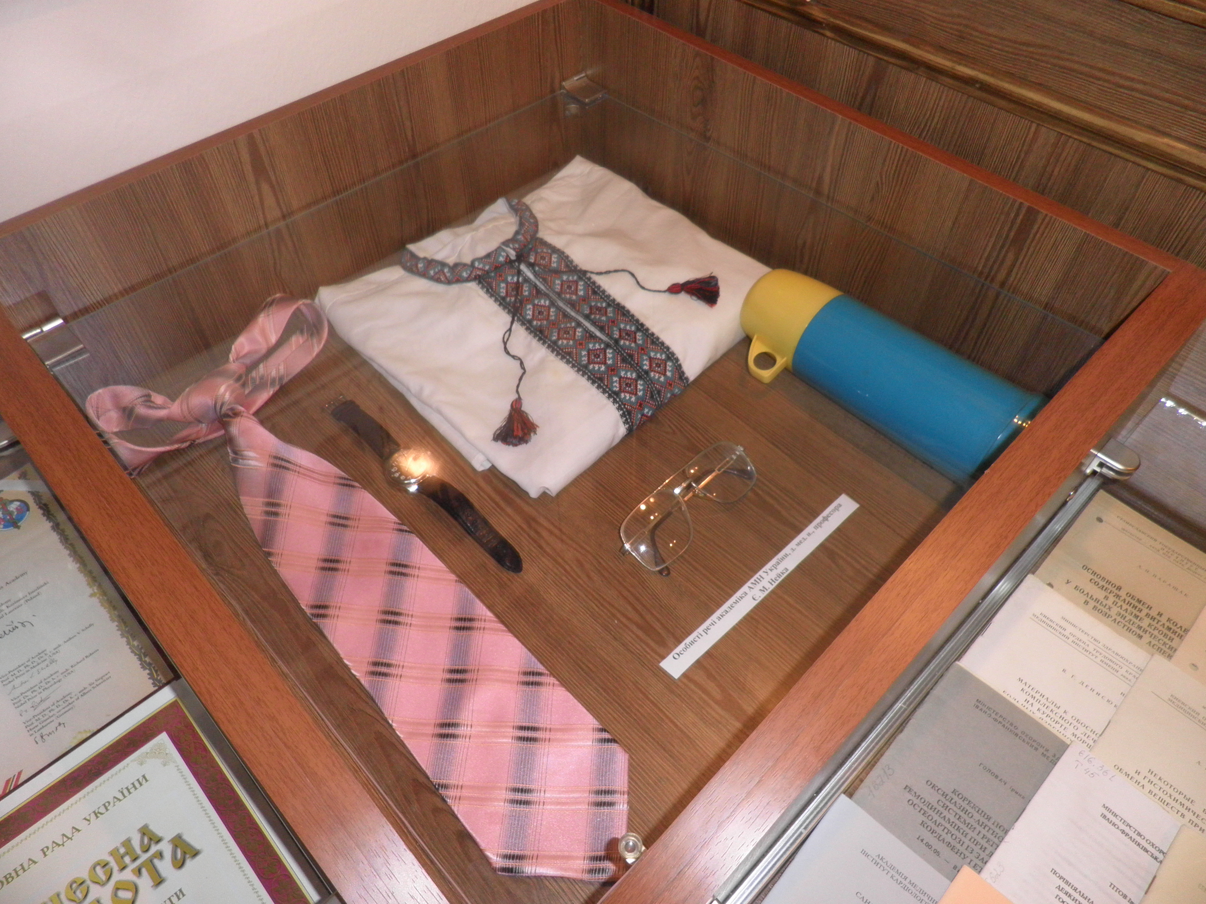 Things that are stored in the museum Yevgen Myhajlovych Neyko, belonged to him during his life: an embroidered shirt, glasses, watch, tie and a thermos